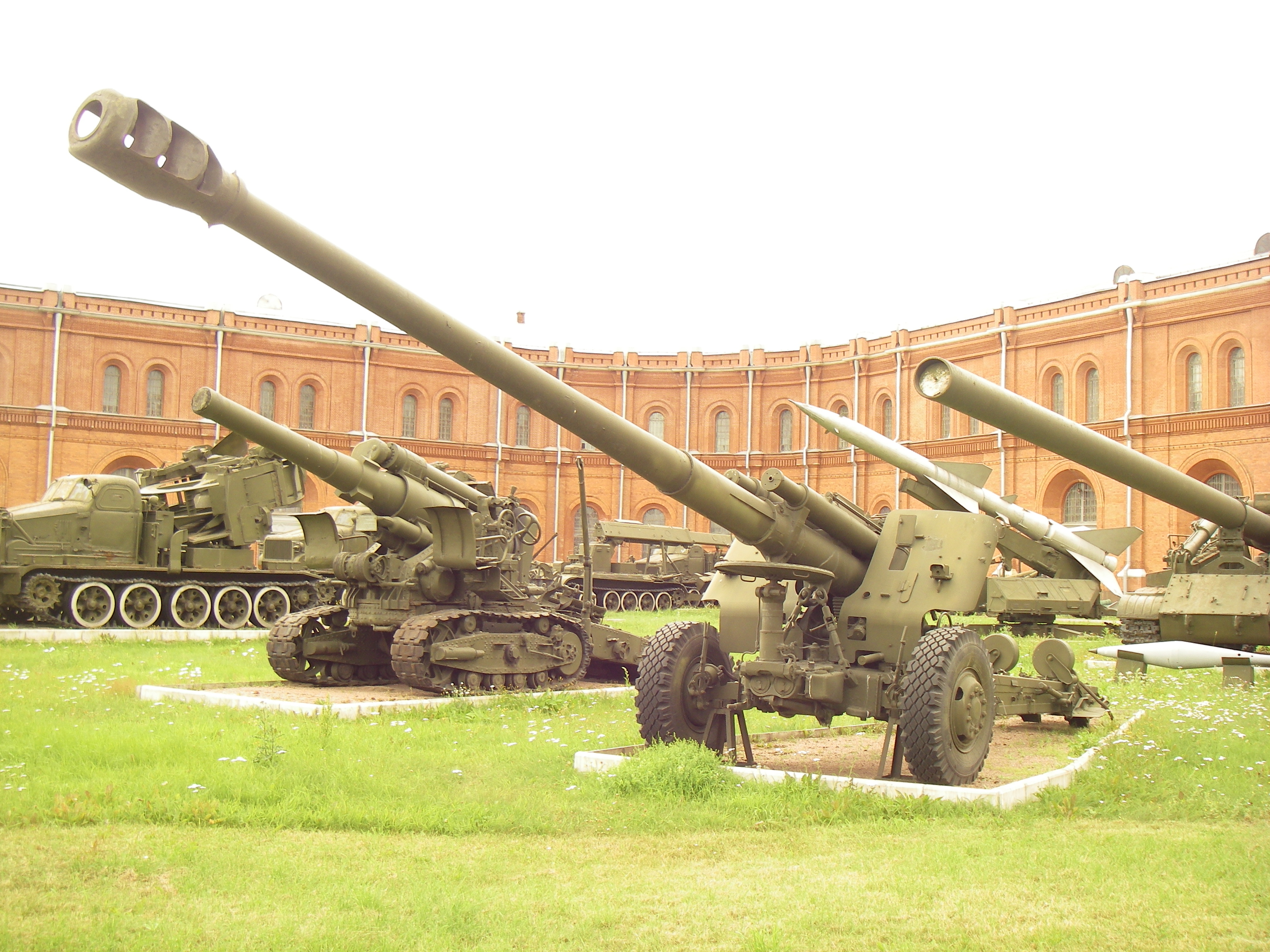 152-mm howitzer 2A65 «Msta-B» in Saint-Petersburg Artillery museum